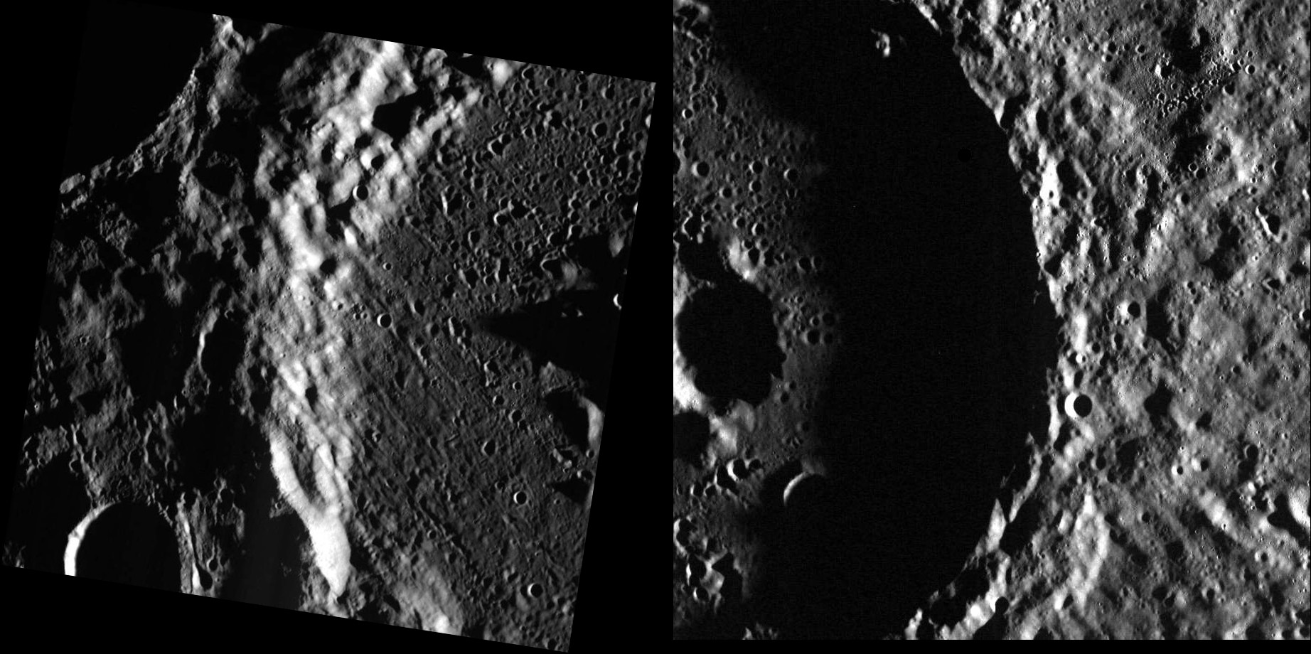 Prokofiev crater on Mercury. Mosaic of two MESSENGER Wide Angle Camera images, acquired on different dates and from different altitudes but with similar lighting. Left image (EW0251112432G) acquired 2012-07-18, was scaled and rotated to match right image (EW0220460702G), acquired 2011-07-29. Total width is about 174 km. North is to the left. Statistics for right image are: Emission Angle: 10.3 Incidence Angle: 84.8 Latitude: 84.7 Longitude: 66.8 Phase Angle: 74.5